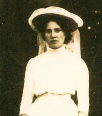 Sarah Sonja Rabinowitz in Giessen, 1909 (clipping)